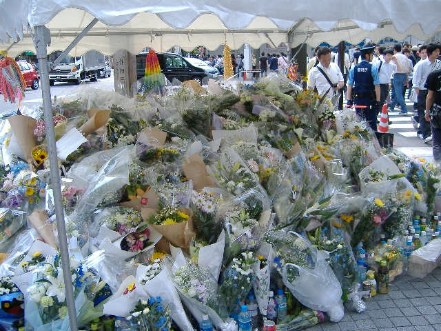 Floral tribute to Akihabara massacre victims